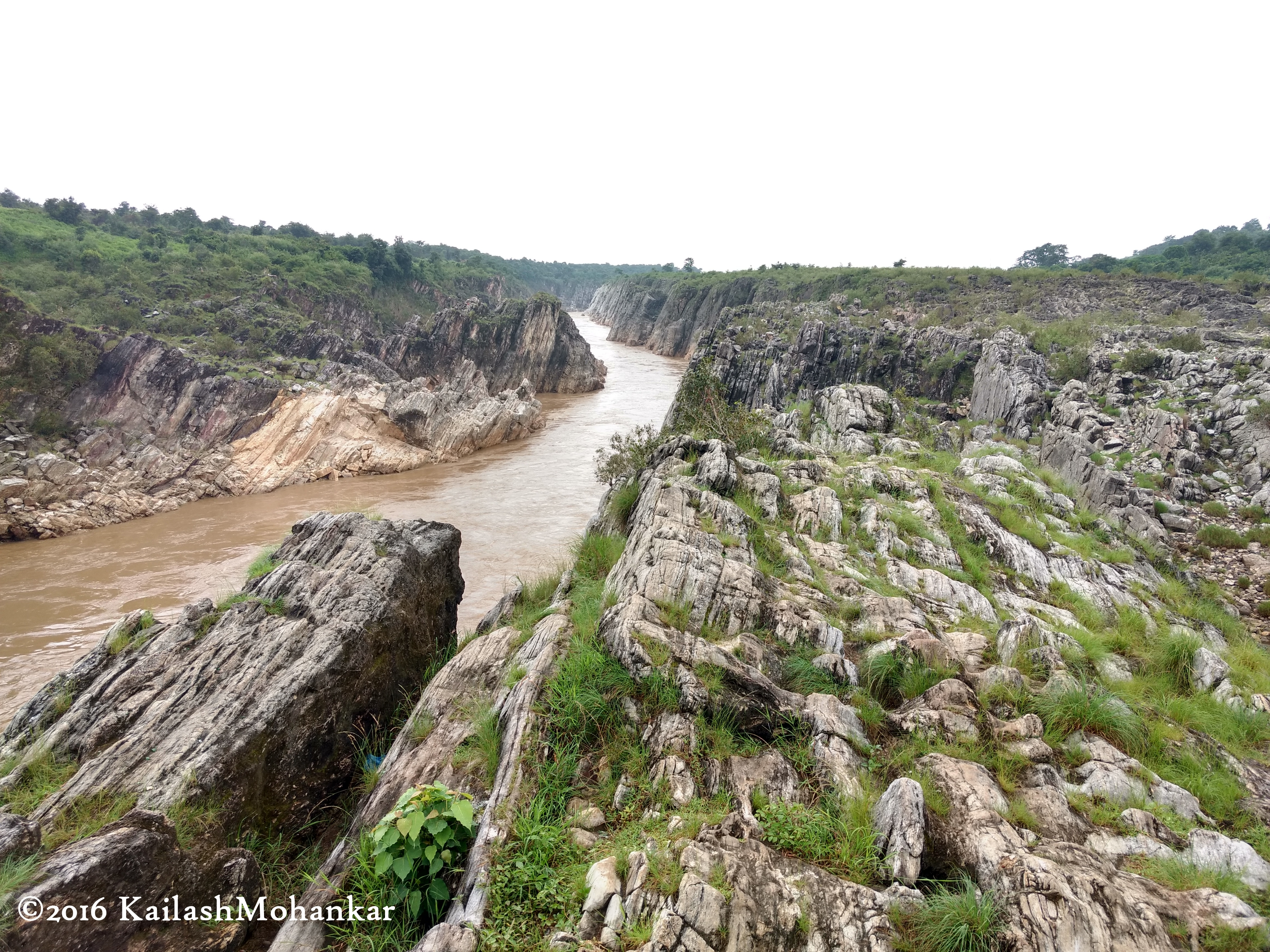 Marble Rocks at Bhedaghat